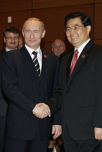 HANOI. Meeting with the President of the People's Republic of China, Hu Jintao.